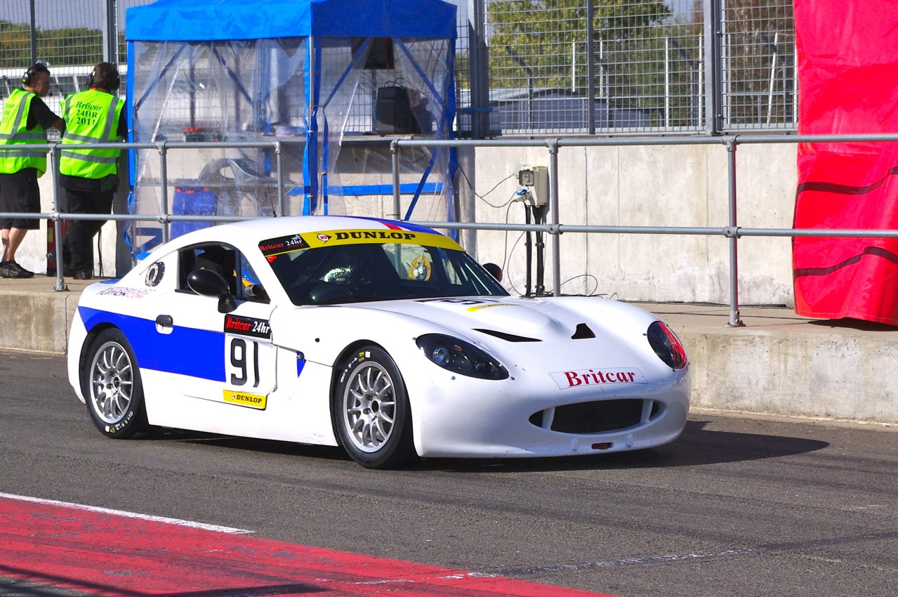 Piranha Motorsport's Ginetta G40 at Brit Cars 24 Hours 2011.